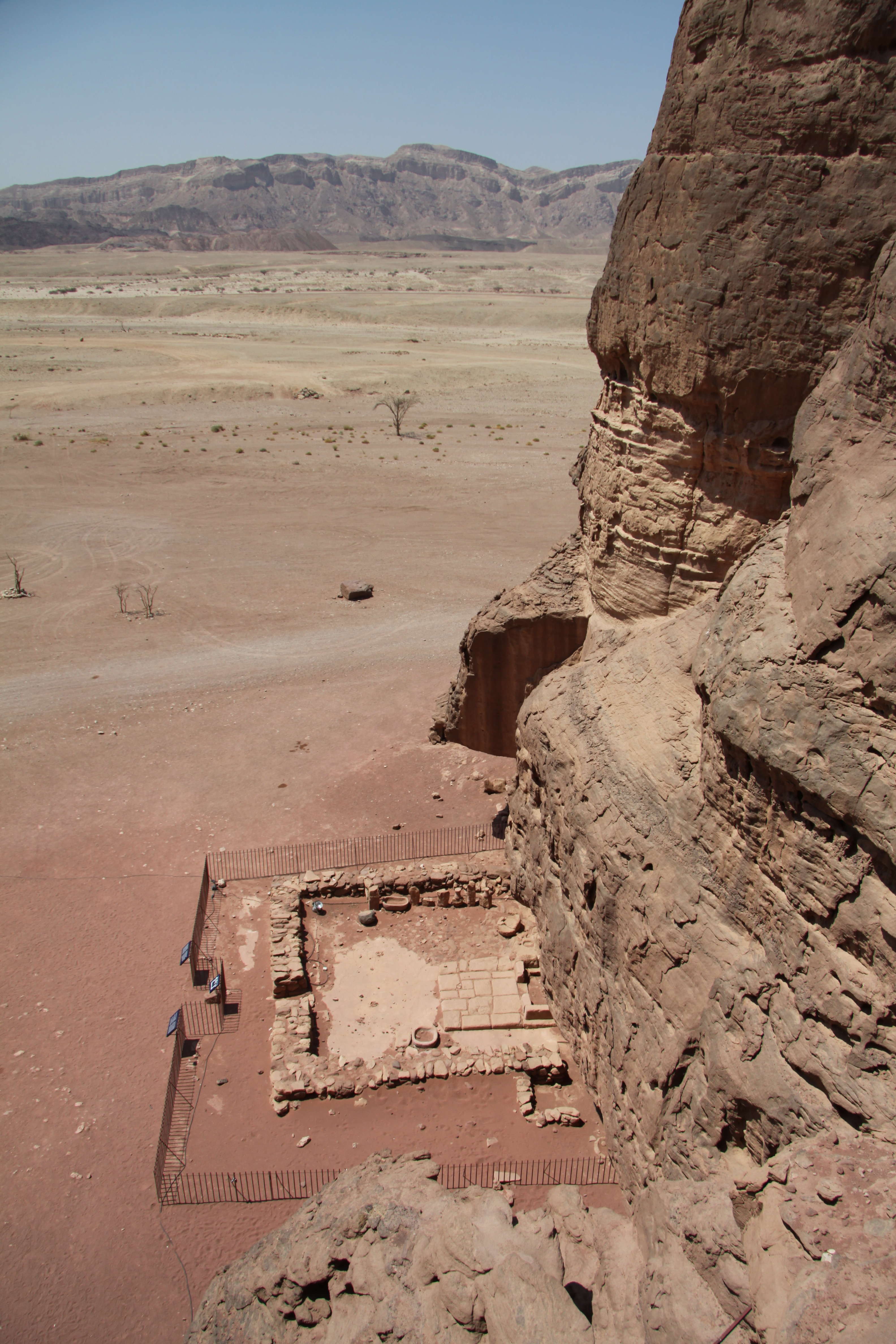 Temple of Hathor in Timna Park, Southern Israel - Google Maps - Google Earth